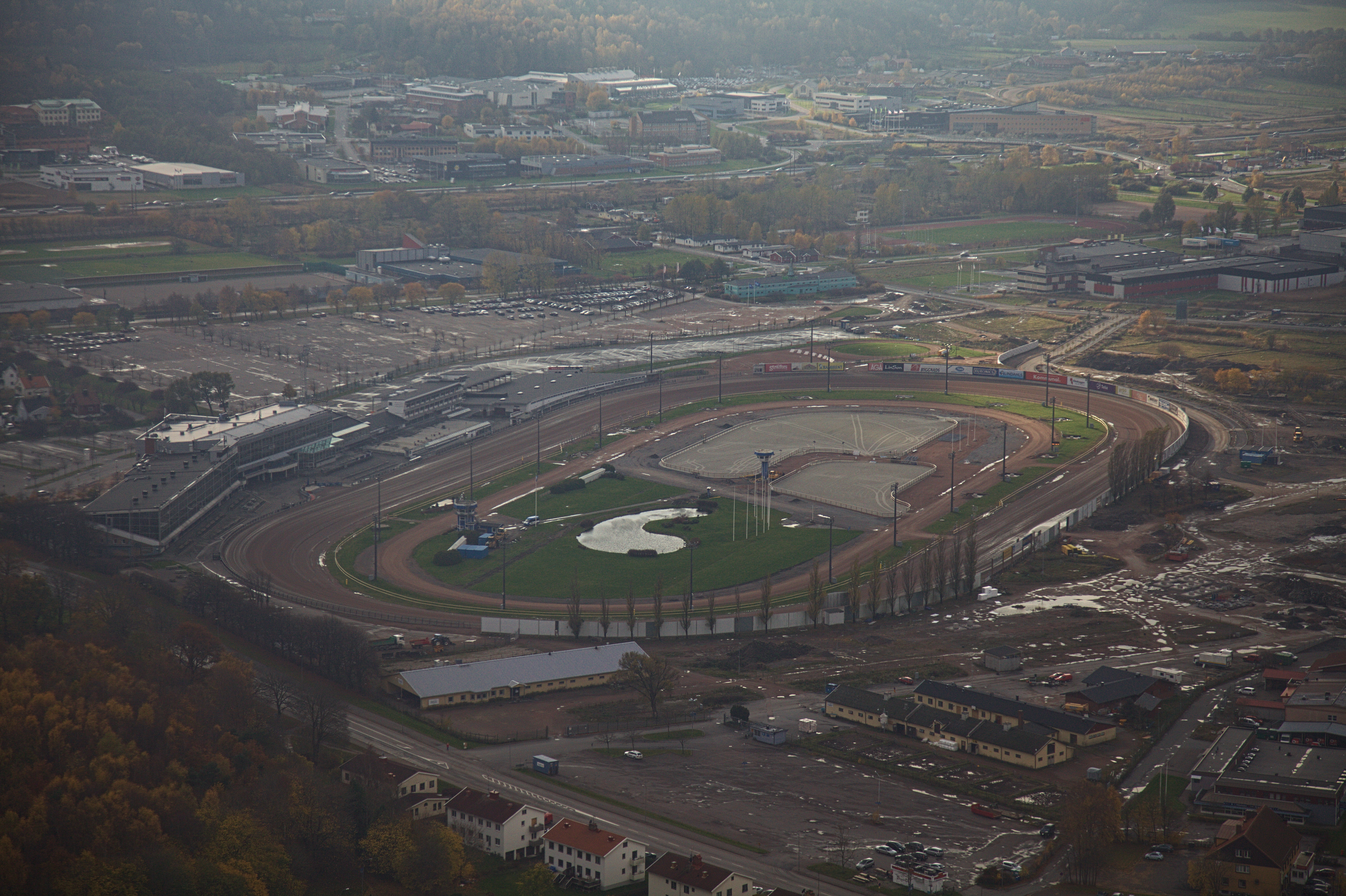 Photo taken on a helicopter over Gothenburg